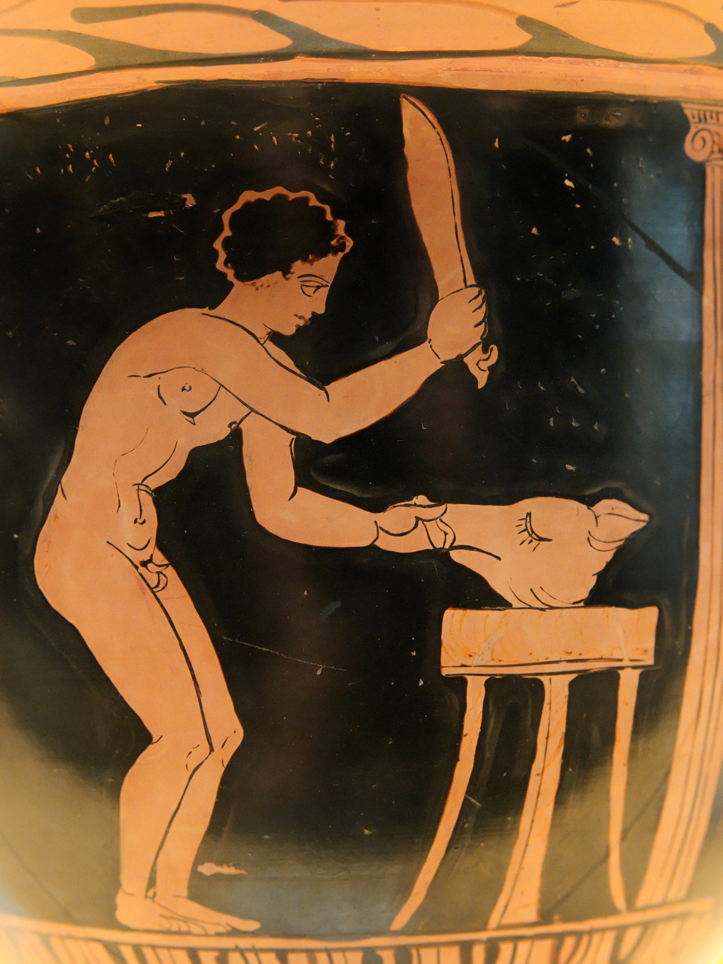 After the sacrifice: a youth prepares the head of a pig in front of a temple (see the column on the right). Apulian red-figure bell-krater.